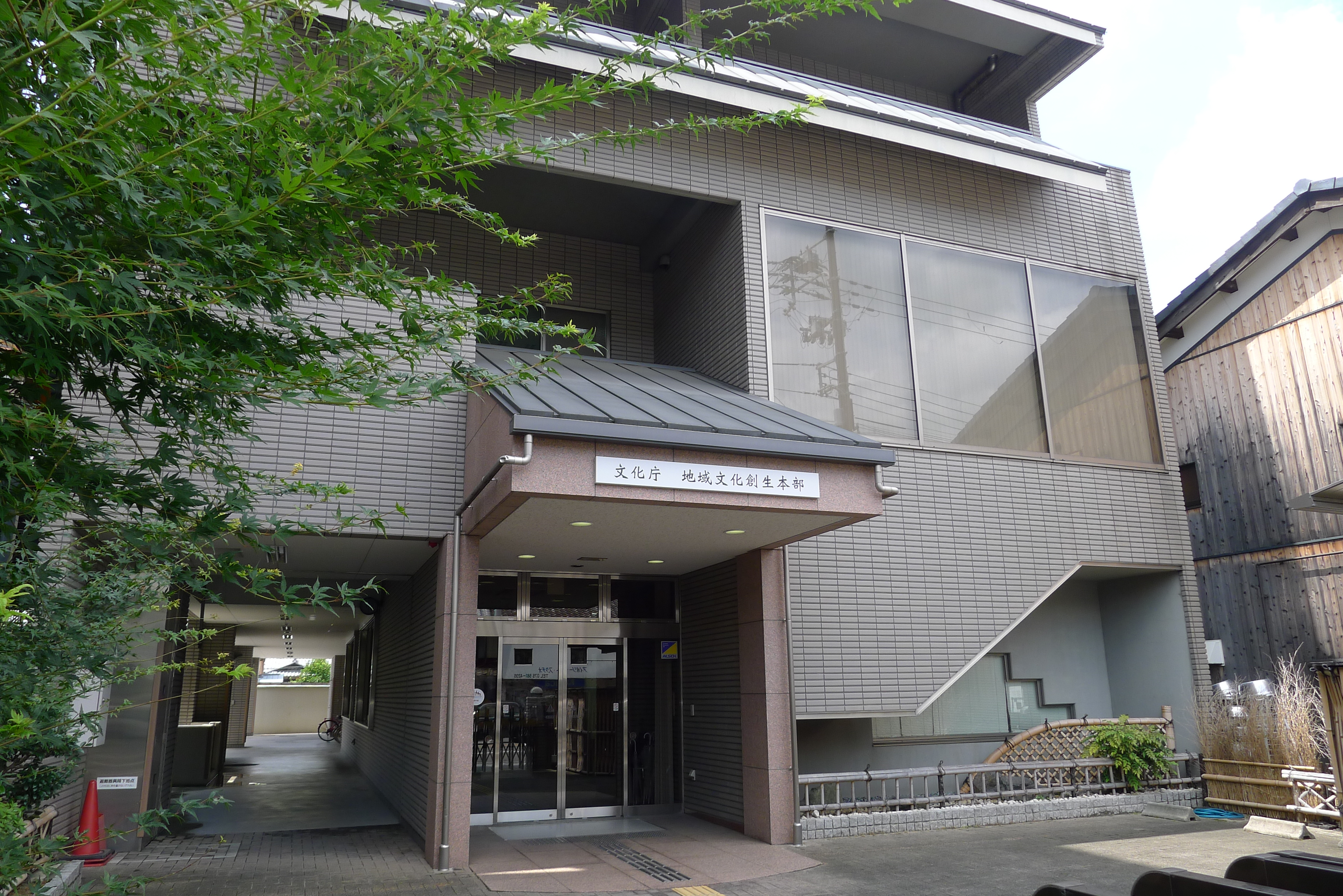 Headquarters for Vitalizing Regional Cultures established as an early part of the relocation of the Agency for Cultural Affairs